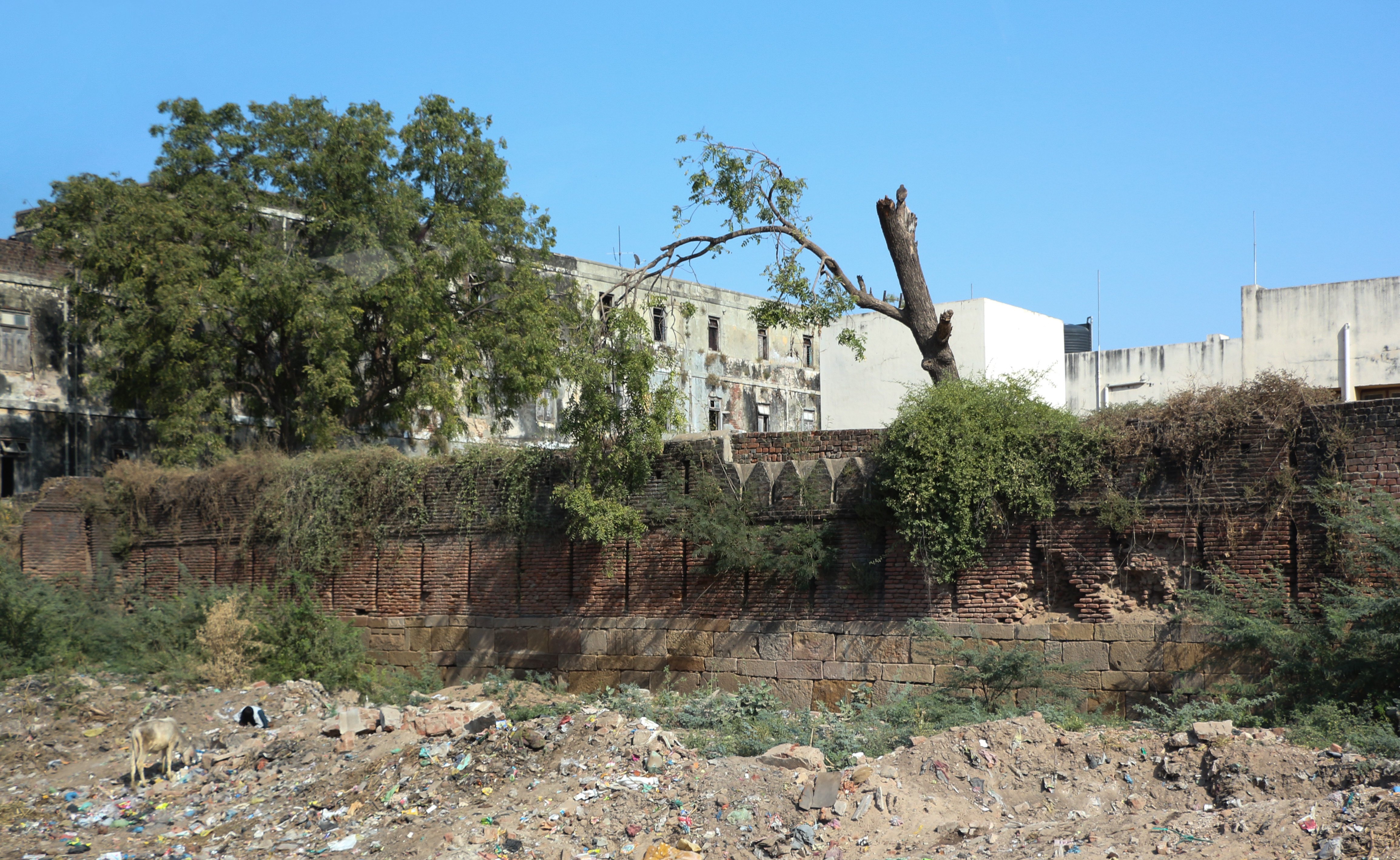 Remains of the walls of New Fort of Patan, Gujarat, India